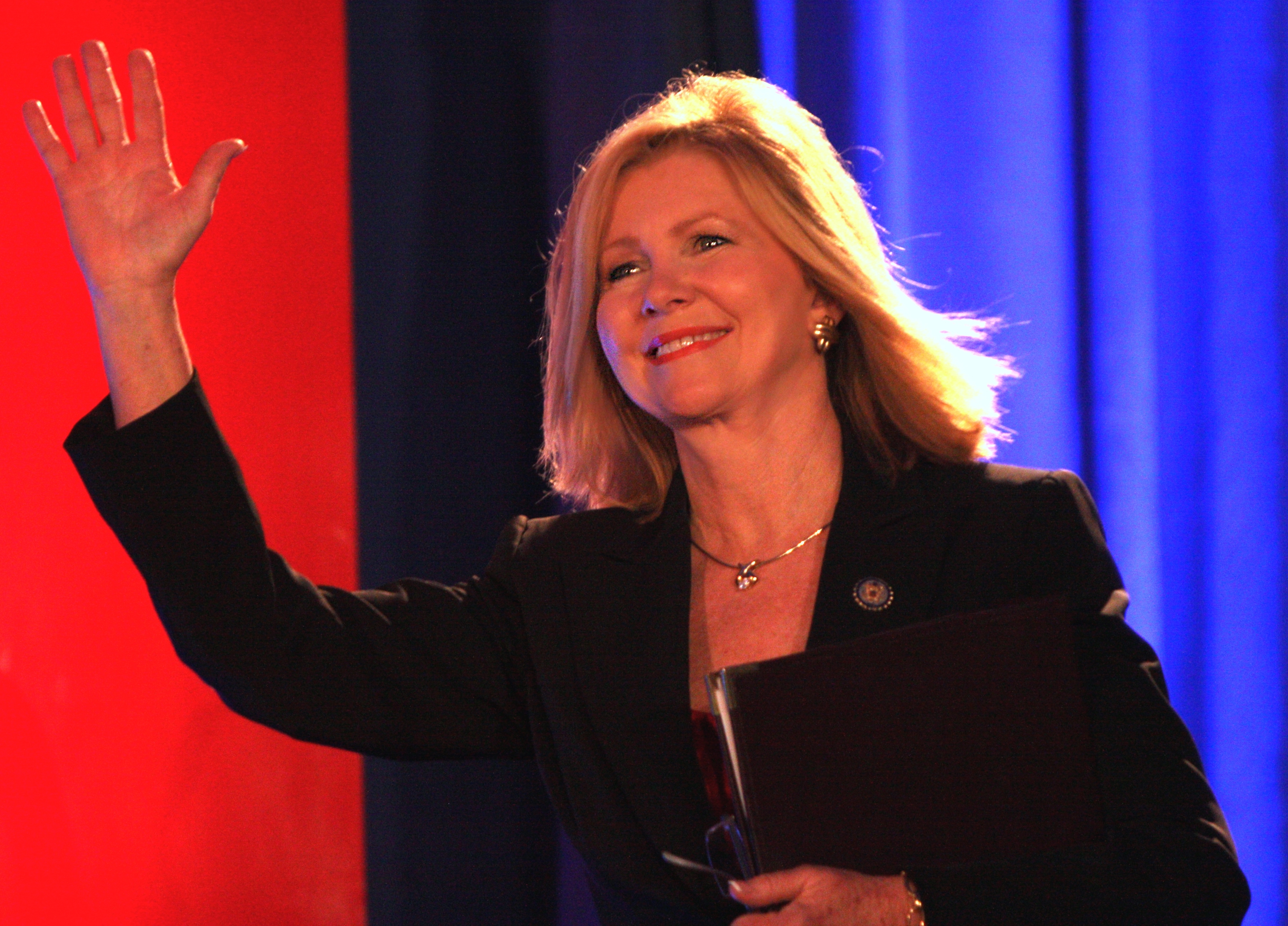 Assumed office: January 3, 2003